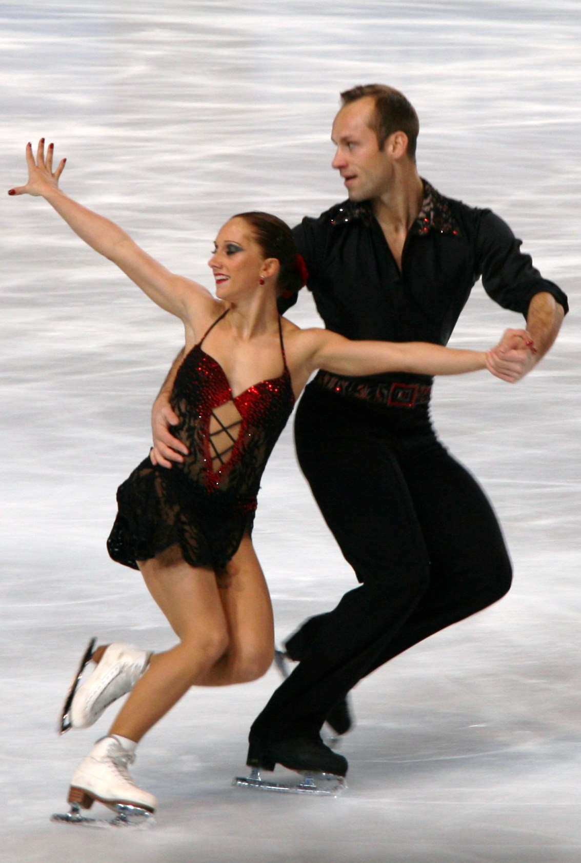 Maylin Hausch and Daniel Wende at the 2010 Trophée Eric Bompard, SP